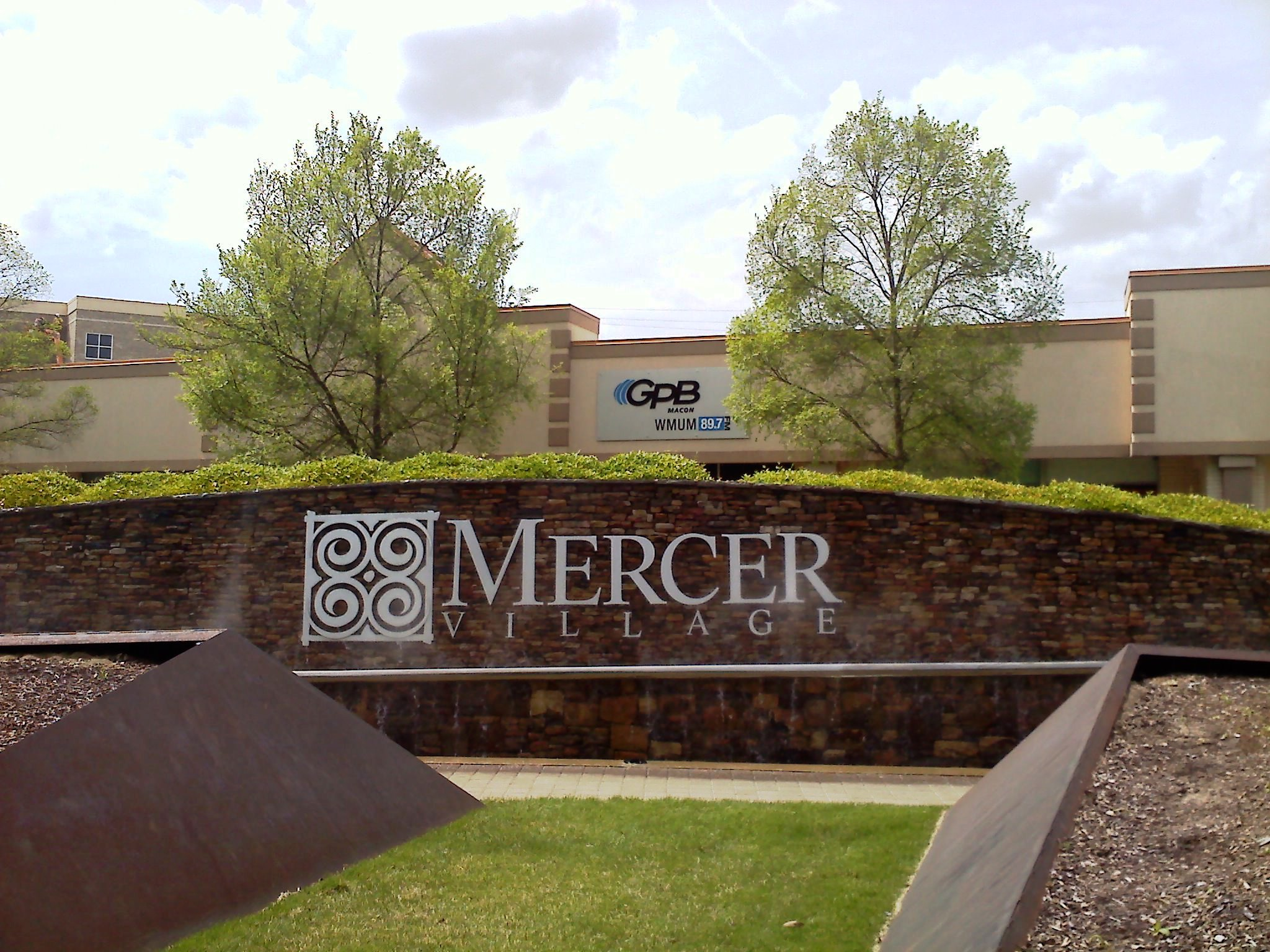 Mercer University's radio station, WMUM-FM, is located in Mercer Village, an academic-residential-retail area on the university campus in Macon, Georgia, United States.